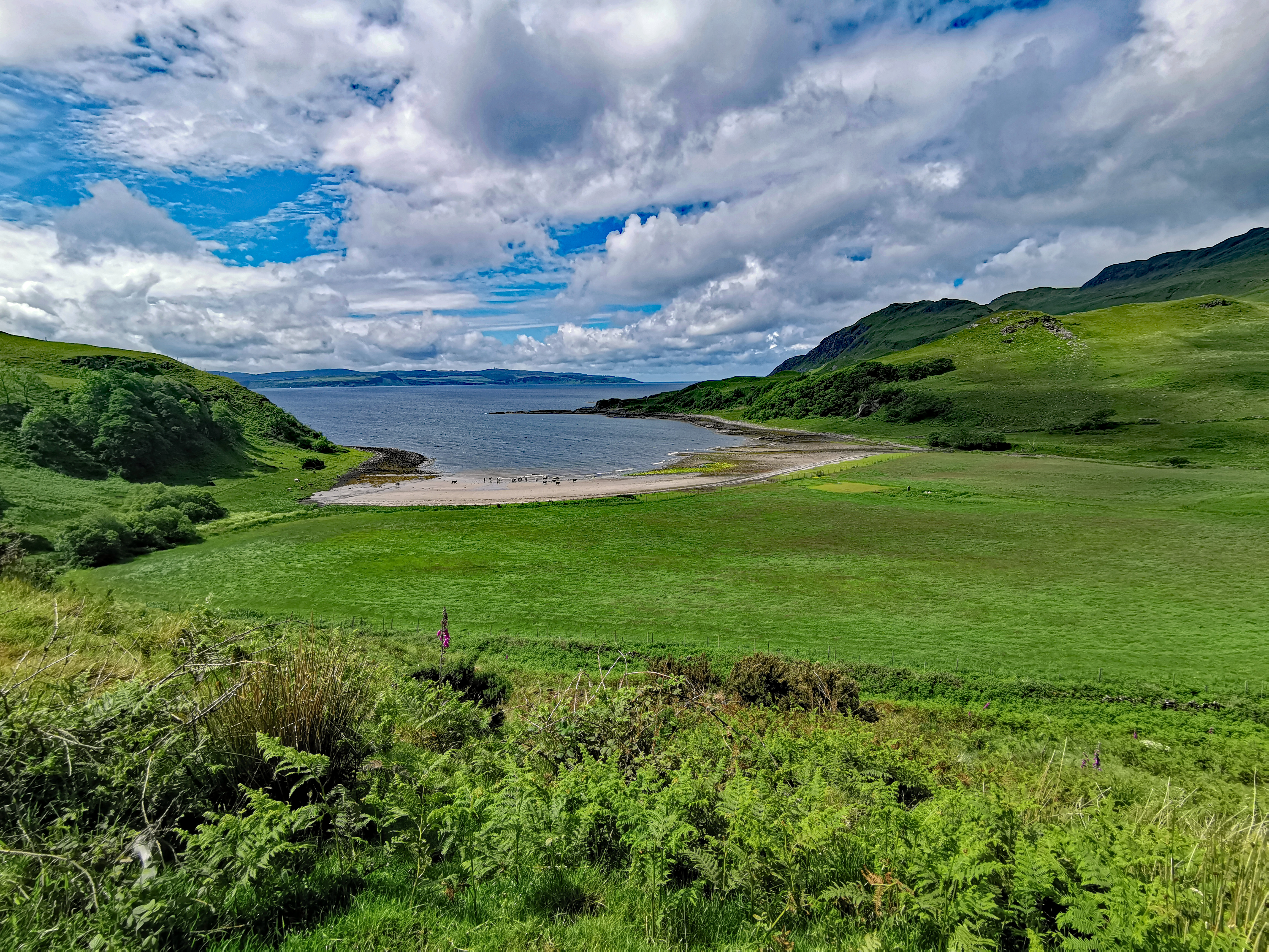 Camas Bay (Camas nan Geall, Highlands, Scotland, UK)